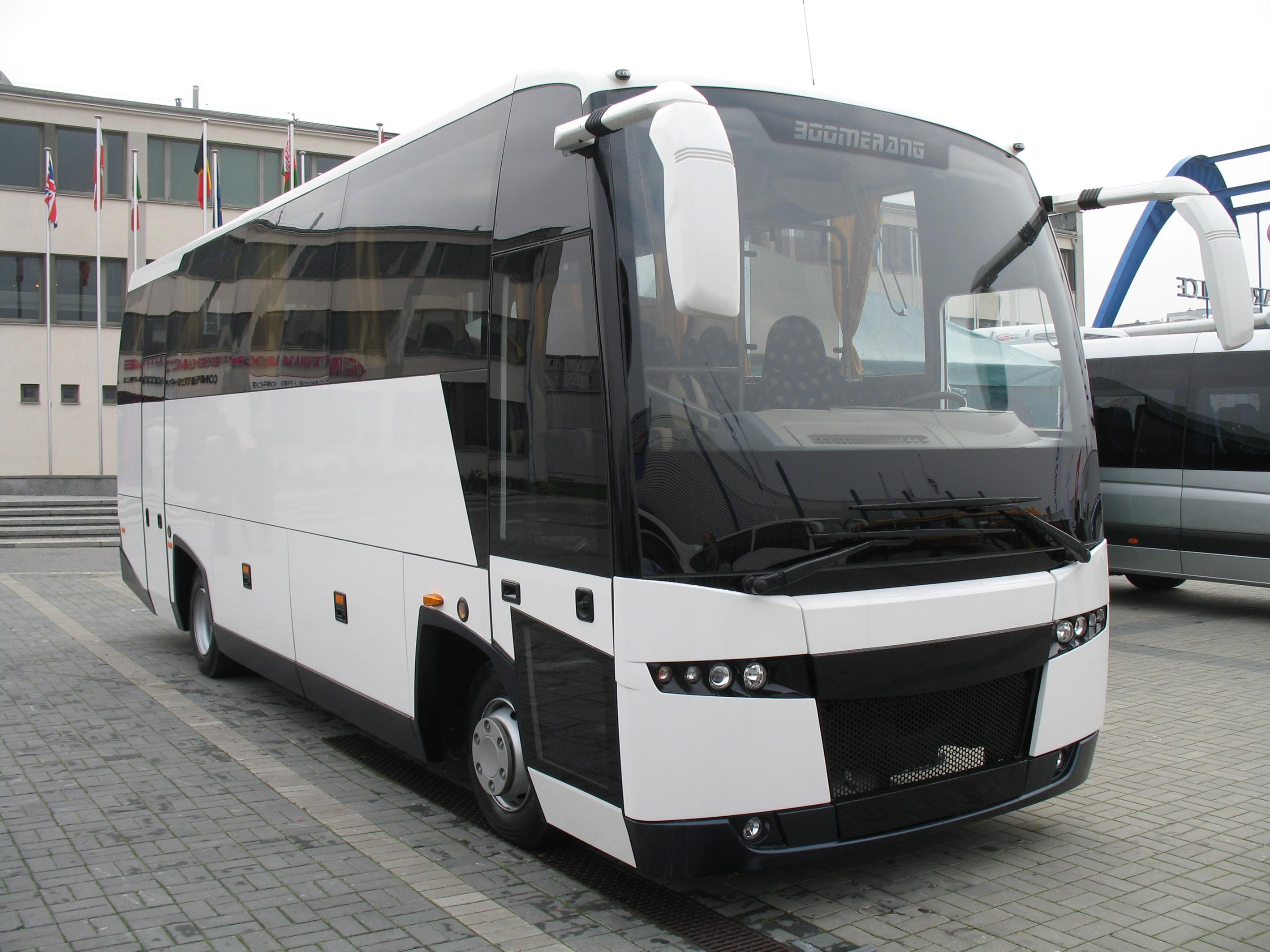 AMZ Boomerang coach (built 2008) with Renault chassis in Kielce, Poland, Transexpo 2008.